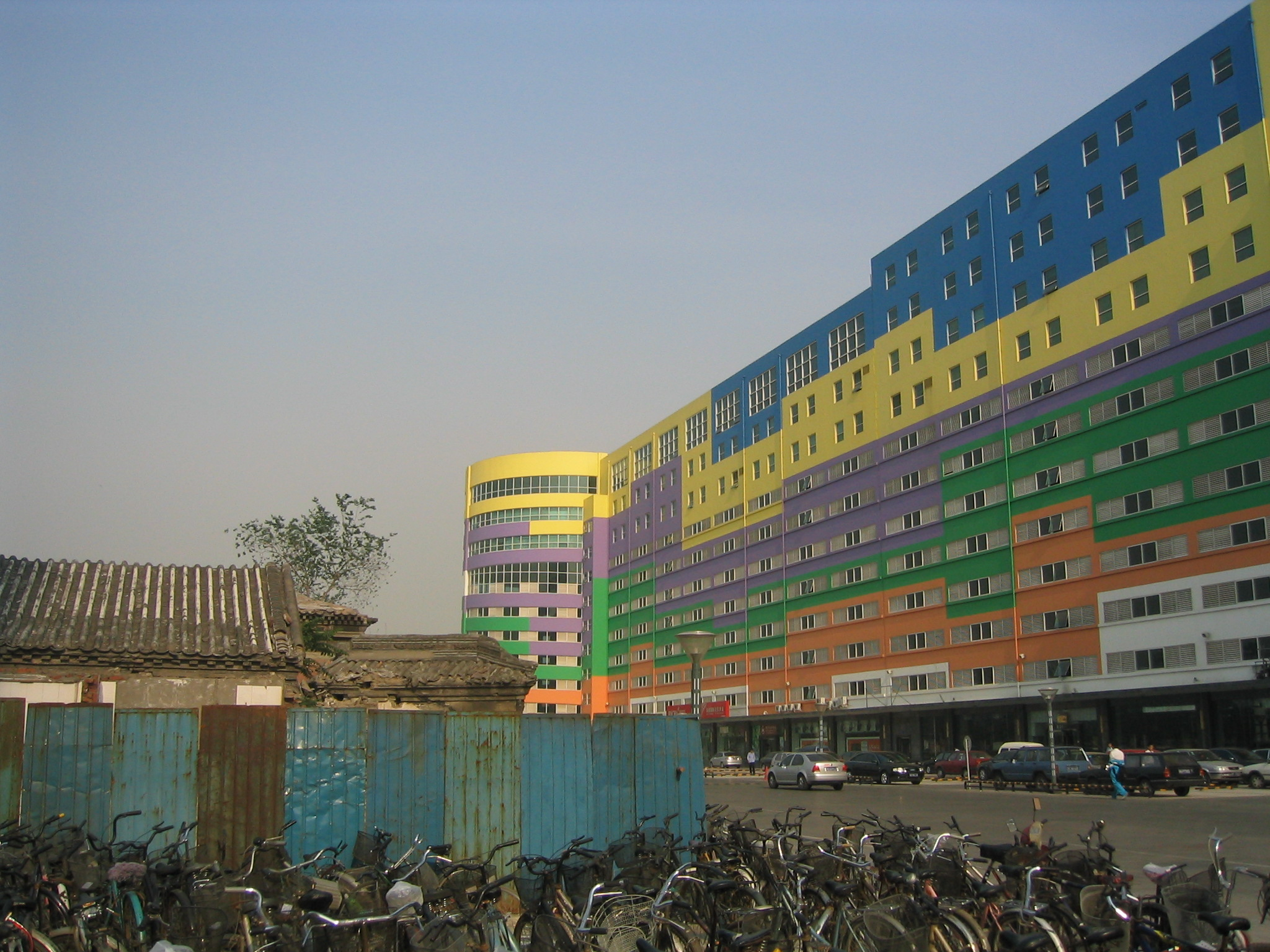 Golden Resources Mall, Haidian